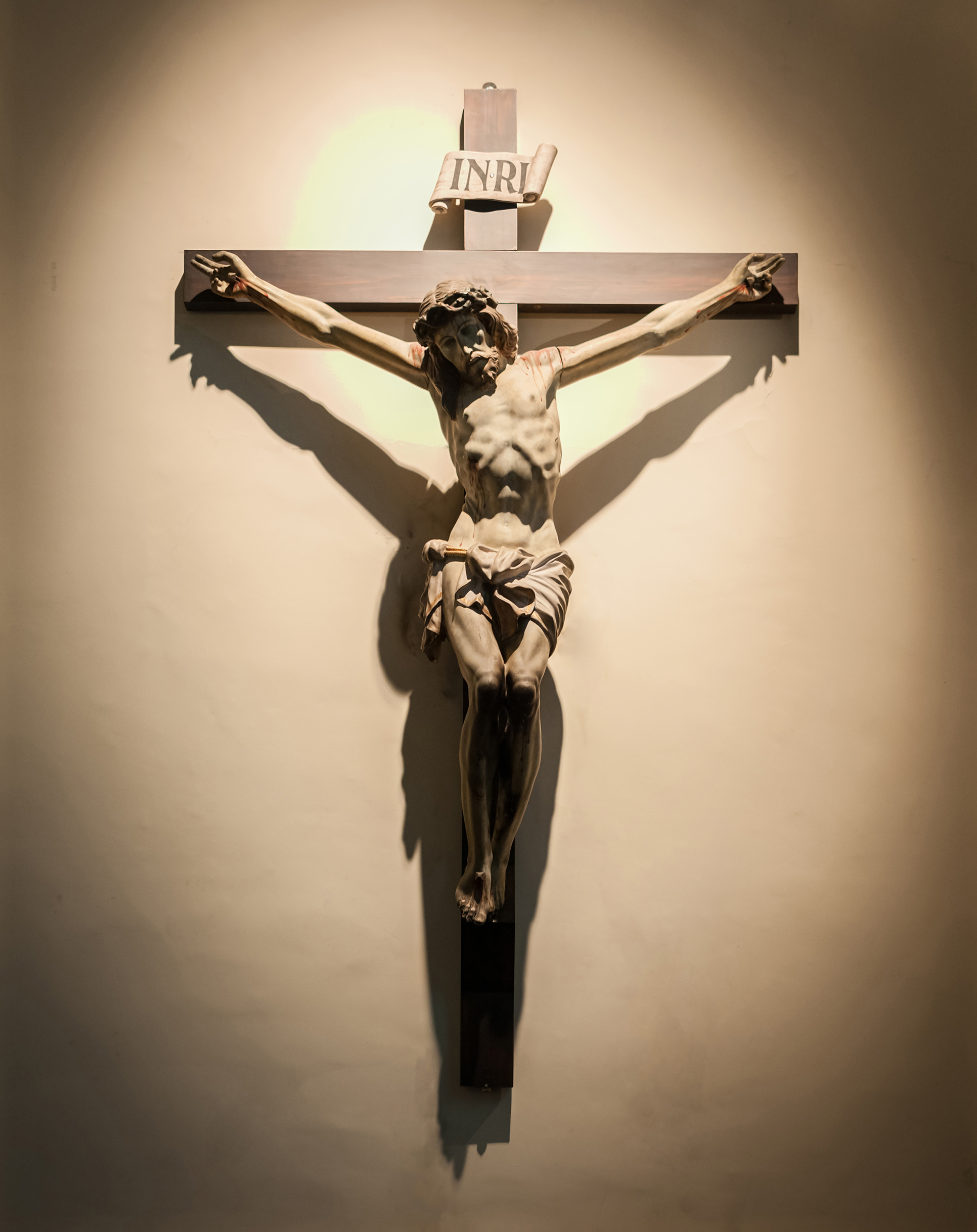 Paróquia São Luiz Gonzaga, Avenida Paulista, São Paulo, Brazil